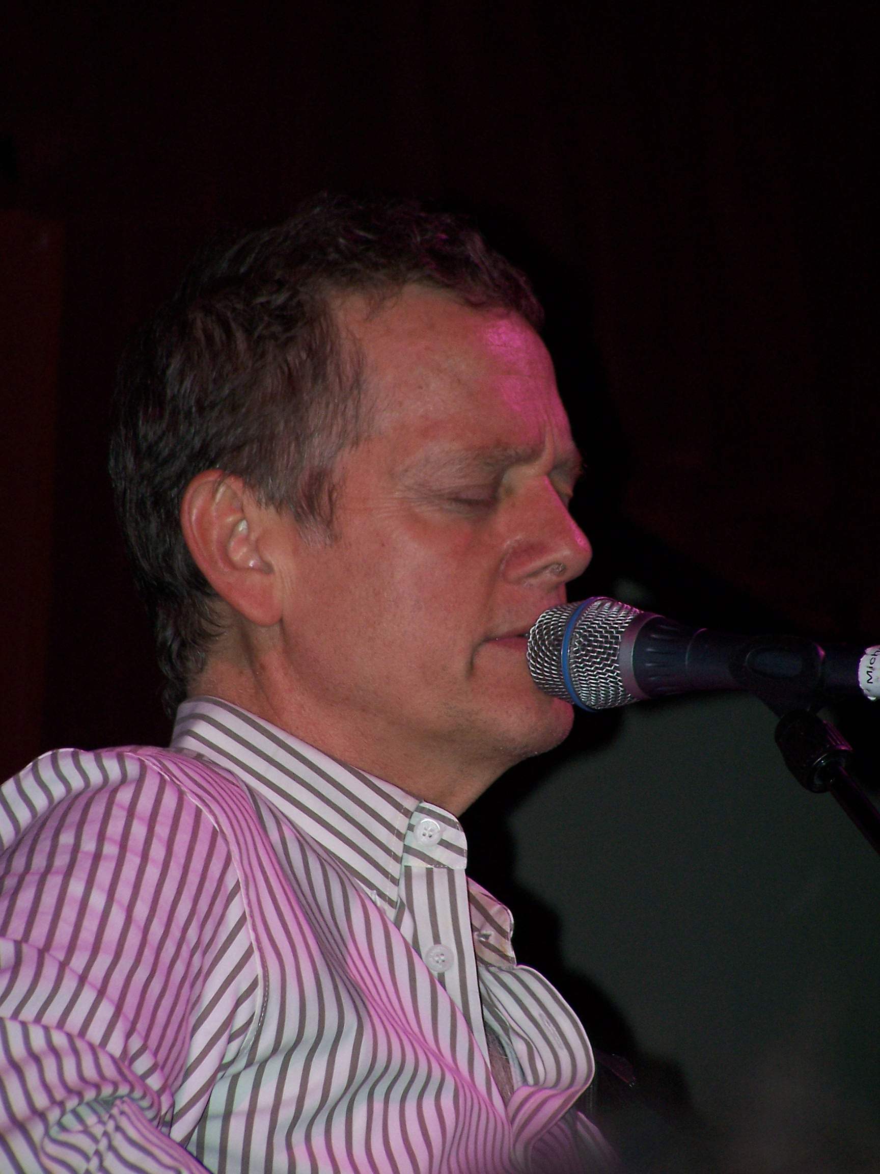 Bacon Brothers, Micheal Bacon, Concert in New York City